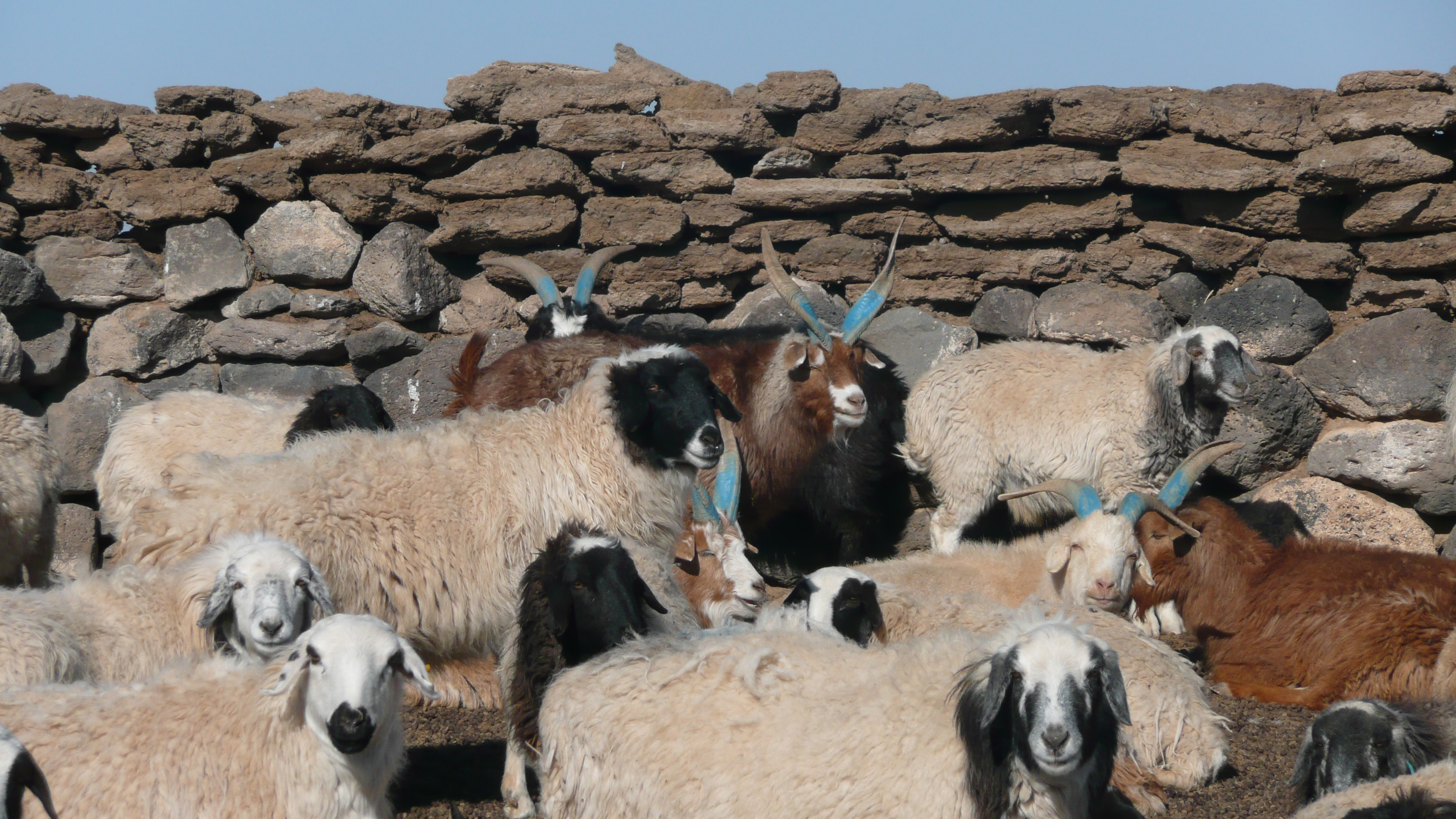 "Khurjun", or blocks of sheep and goat dung to protect animals during the zud winter 2010 in South Gobi